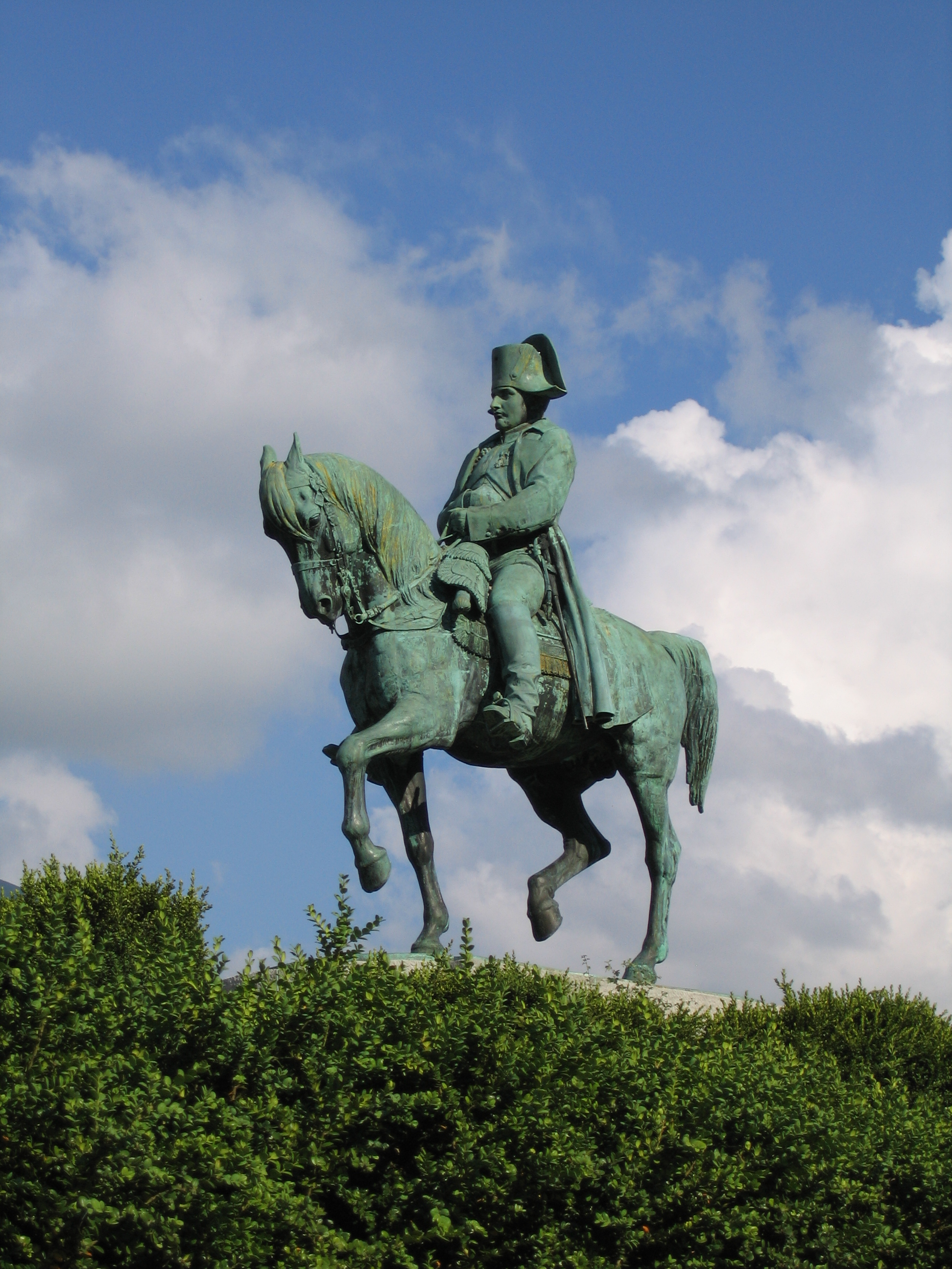 Emmanuel Frémiet: Equestrian statue of Napoleon, 1868, located since 1930 in Laffrey (a village south of Grenoble (Isère, french Alps) in a place named "prairie de la Rencontre"(meeting meadow), the place where Napoleon went forward to meet soldiers who came to arrest him.